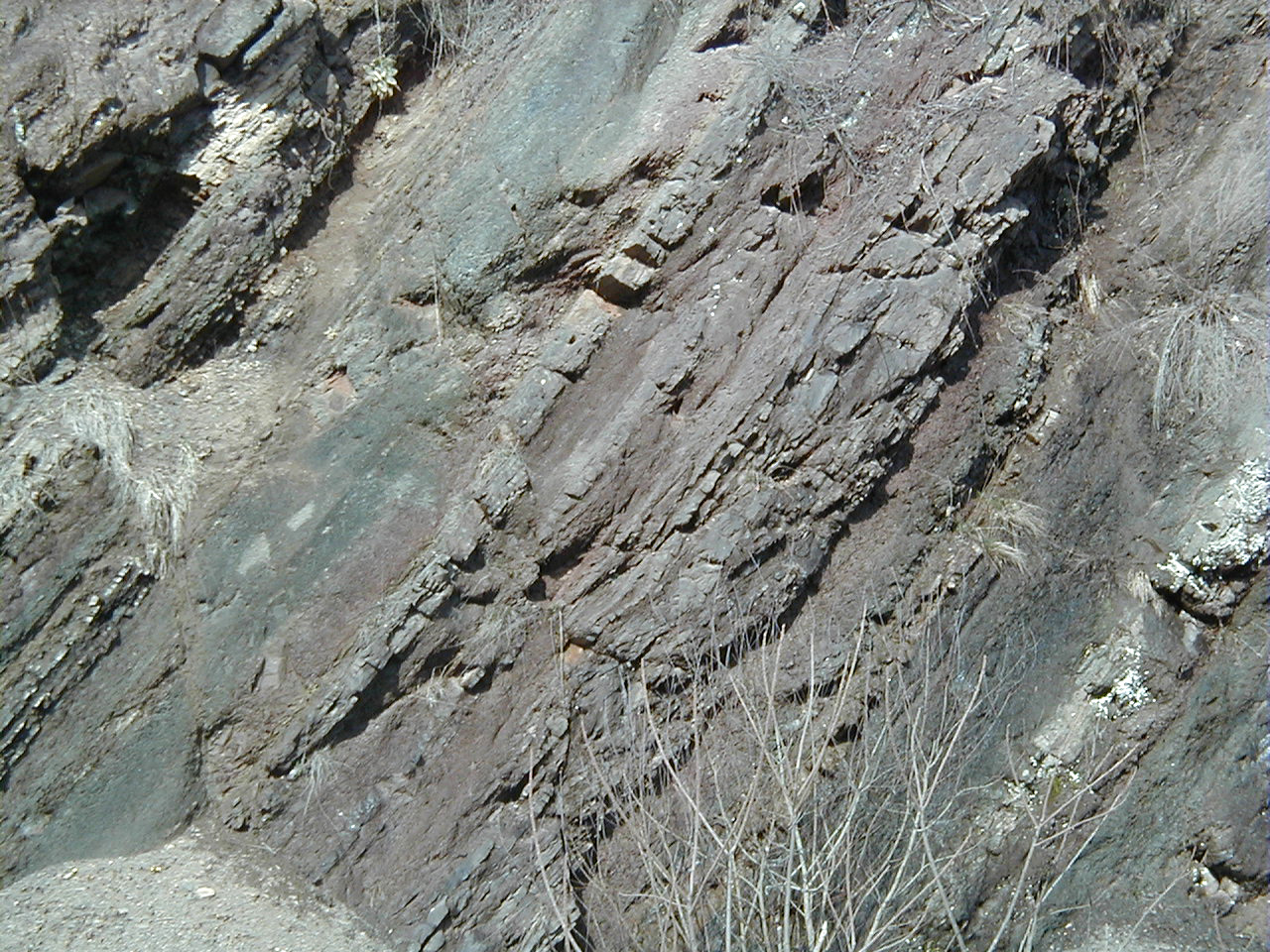 Hinton Formation (looking west) - this is the Oakvale School outcrop in West Virginia, USA from which the bivalve crinkle bed specimen shown in this album derives. The rocks here are overturned beds of the Hinton Formation (Upper Mississippian). Stratigraphic up is to the right (north). Rocks are dipping ~50° to the south. The beds are mostly reddish and greenish-gray mudshales with some resistant siltstone & sandstone interbeds. Some of the sandstones have shale rip-up clasts. Well-defined burrows (trace fossils) can be found in some of the hard mudshales and sandstones. Observed body fossil occurrences here include bivalve pavements (see photos in this album) and poorly defined, carbonized plant fossil fragments in the shales. Some loose shale & sandstone samples have fault slickenlines.